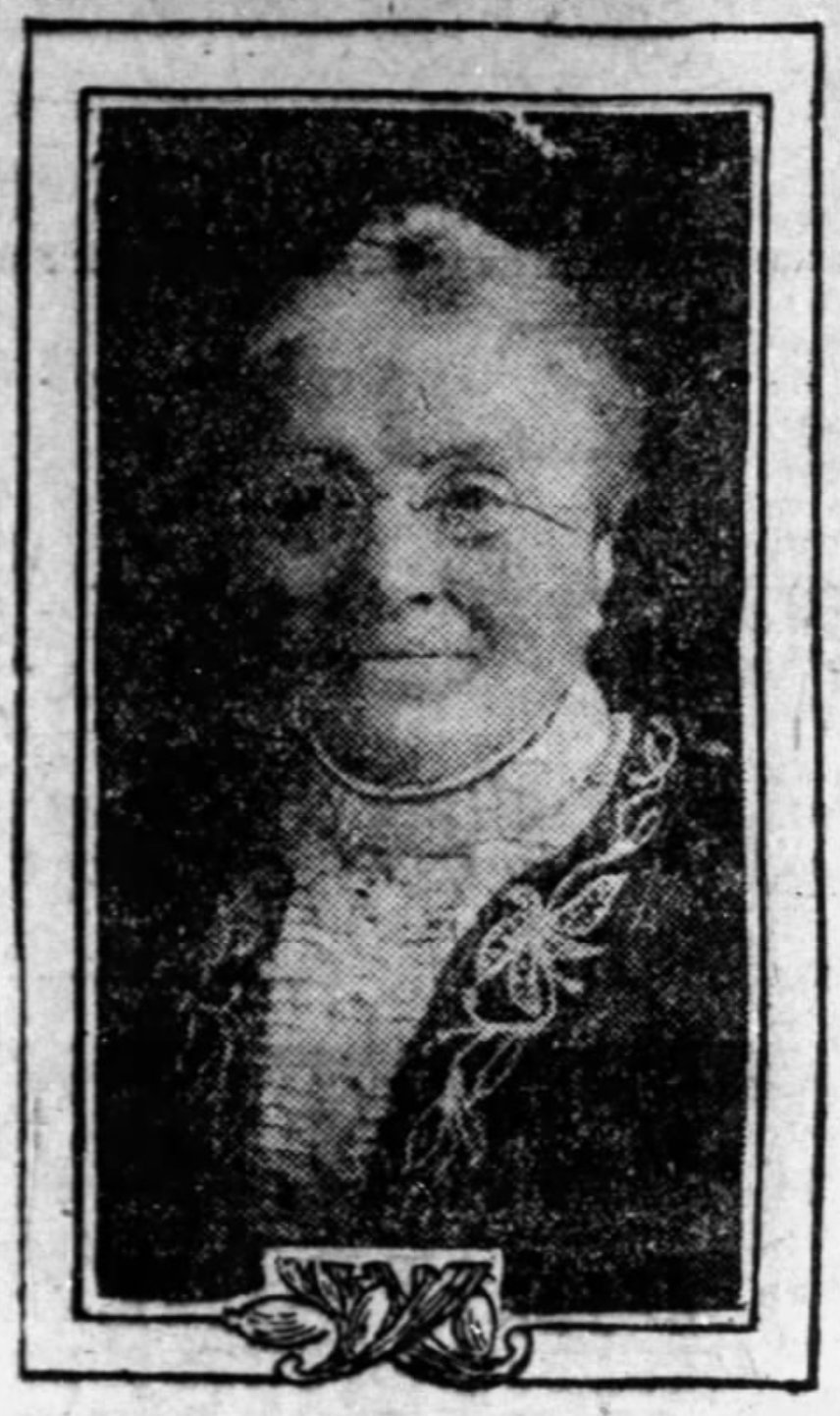 Photo of Mary Blair Moody from her 1919 obituary in the Buffalo Times